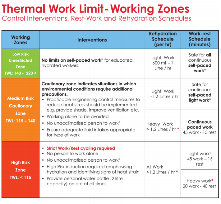 Abu Dhabi EHSMS Safety in the Heat TWL working Zone